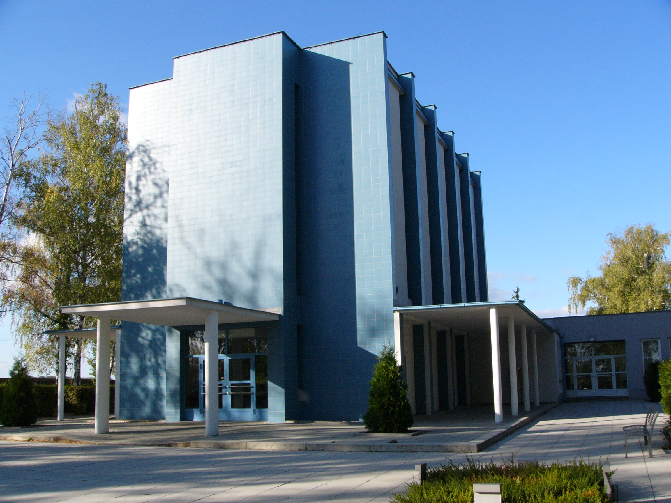 Crematorium at třída Míru street in Olomouc (Czech Republic) from 1931-1932.